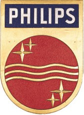 Philips shield with radio waves and stars in a circle